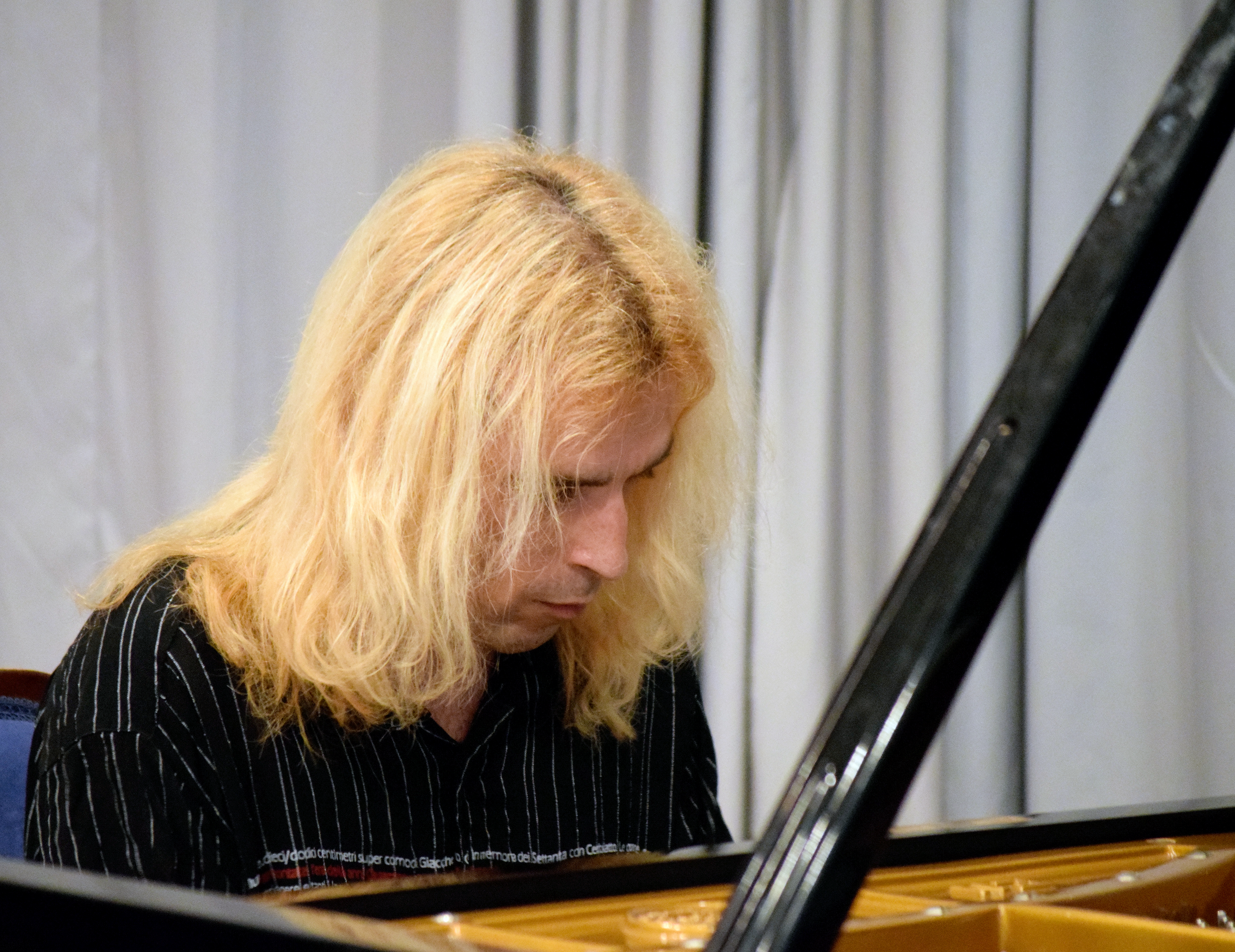 The performance of the serbian pianist Nebojša Maksimović at the Gallery of the Serbian Academy of Sciences and Arts (May 26, 2016)